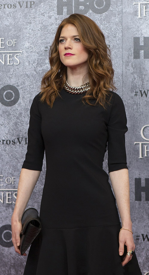 Scottish actress Rose Leslie at HBO's "Game Of Thrones" Season 3 Seattle Premiere at Cinerama.